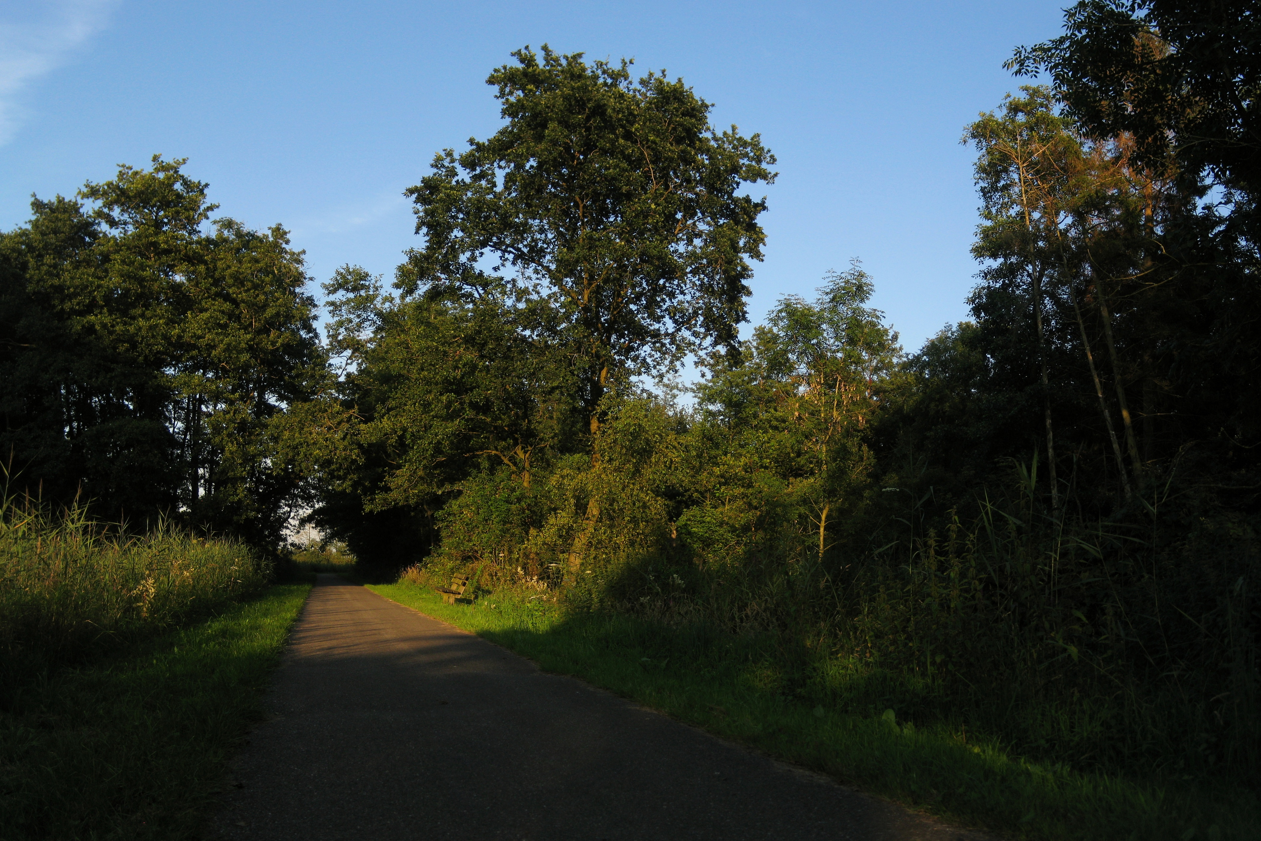 Cycle path in the Peizermaden, a nature reserve in the Dutch province of Drenthe.